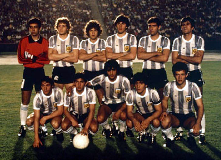 The Argentina national u-20 football team that won its first title in Japan.